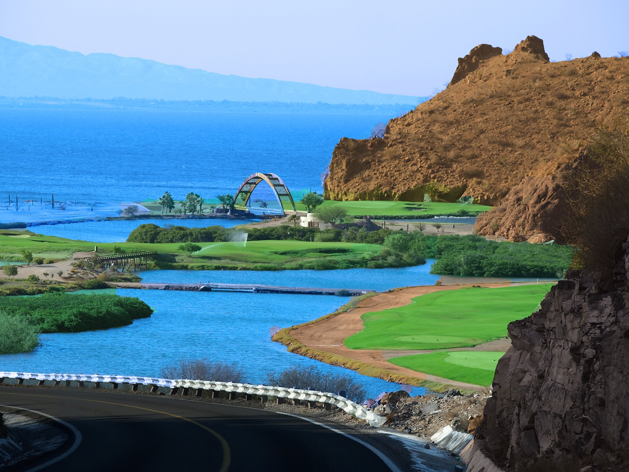 Nopolo